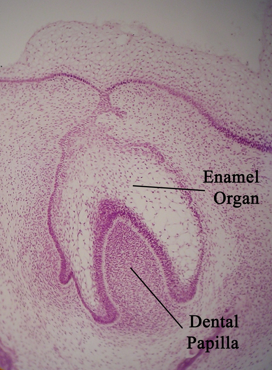 Histology of developing tooth with enamel organ and dental papilla labeled. Photo taken by Dozenist.